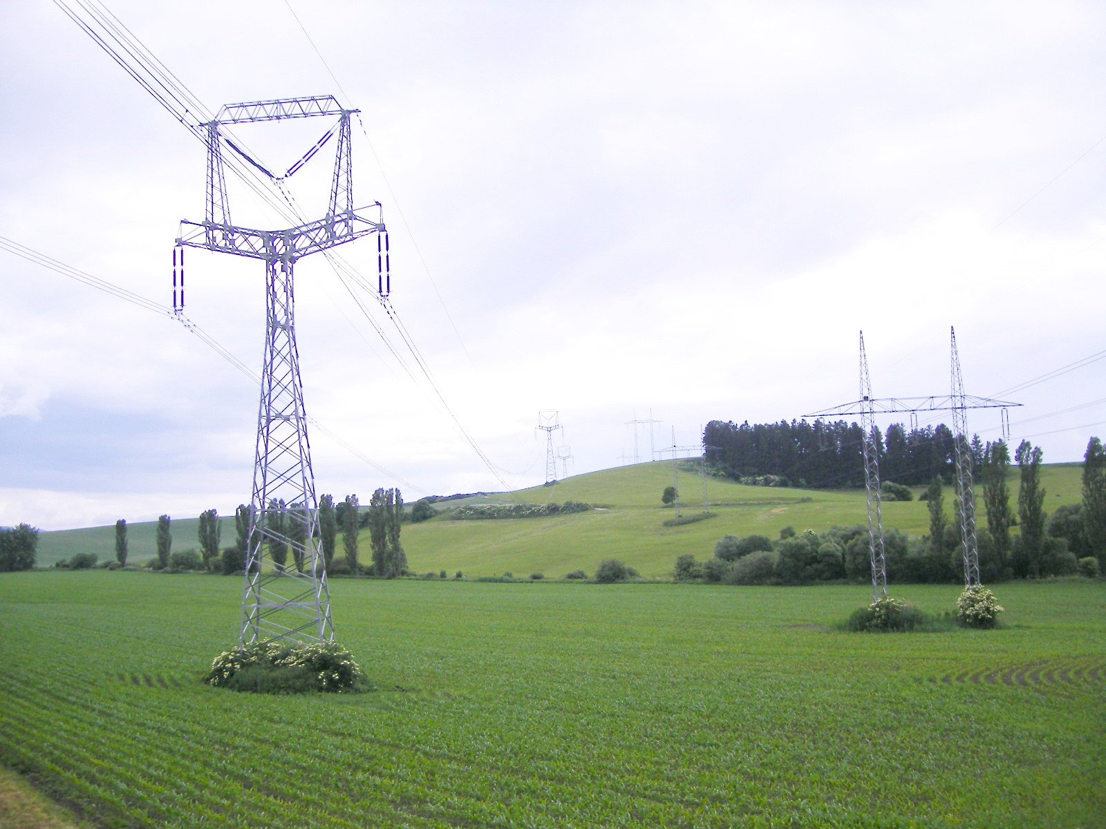 Horný Kalník - Landscape between Horný Kalník and Turčianske Jaseno